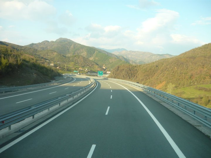 The Albanian A1 motorway at Reps